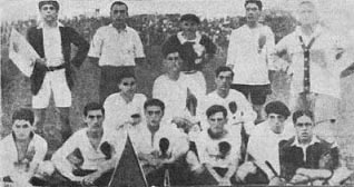 Argentine football team Huracán (Buenos Aires) in 1913, when the team promoted to Primera División.